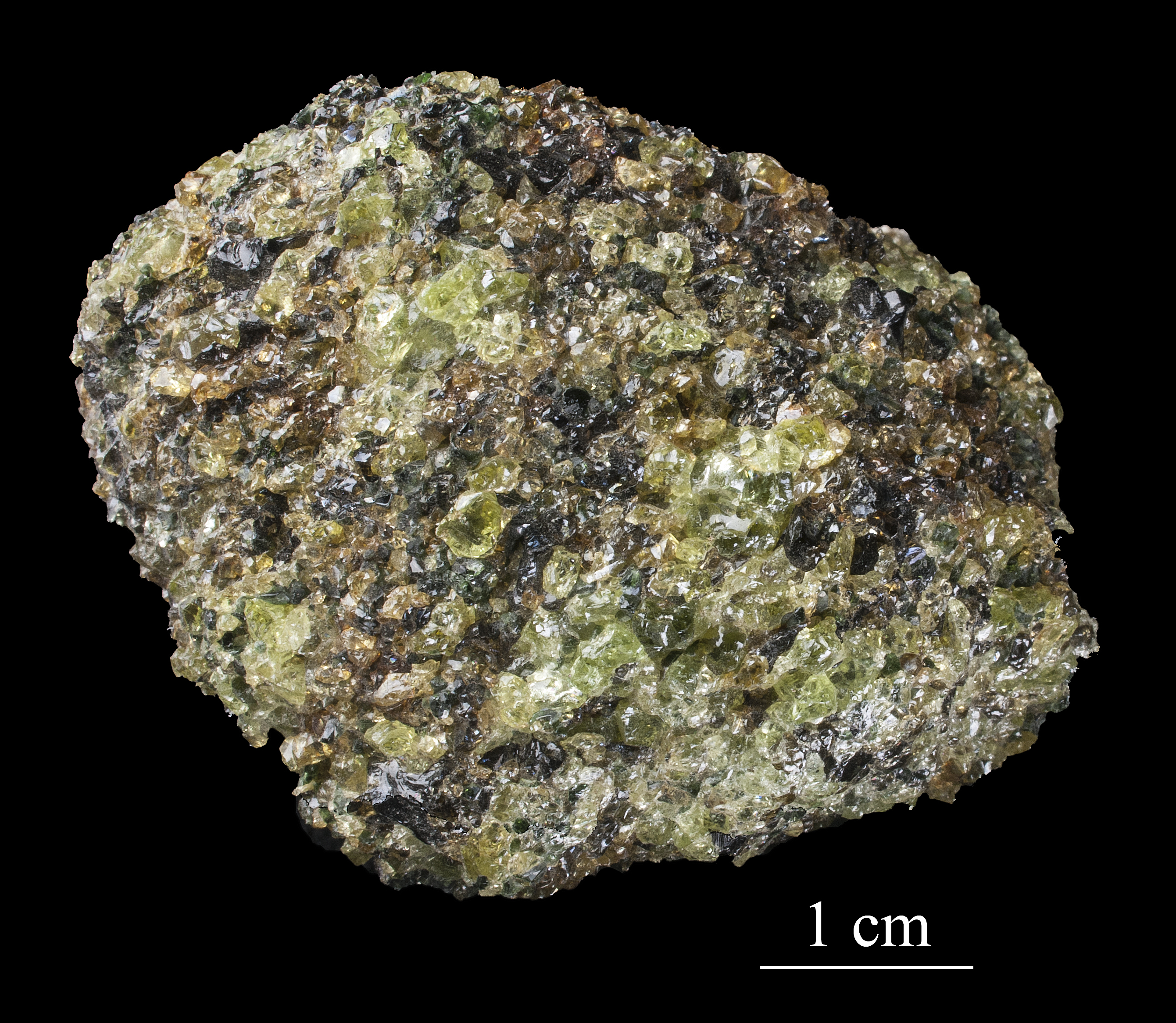 Lherzolite. More info about this file and about this specimen at